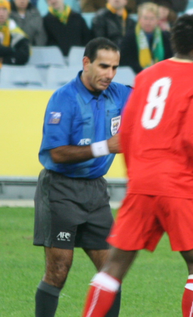 Abdullah Al Hilali of Oman. Socoroos vs Bahrain. World Cup Qualifier